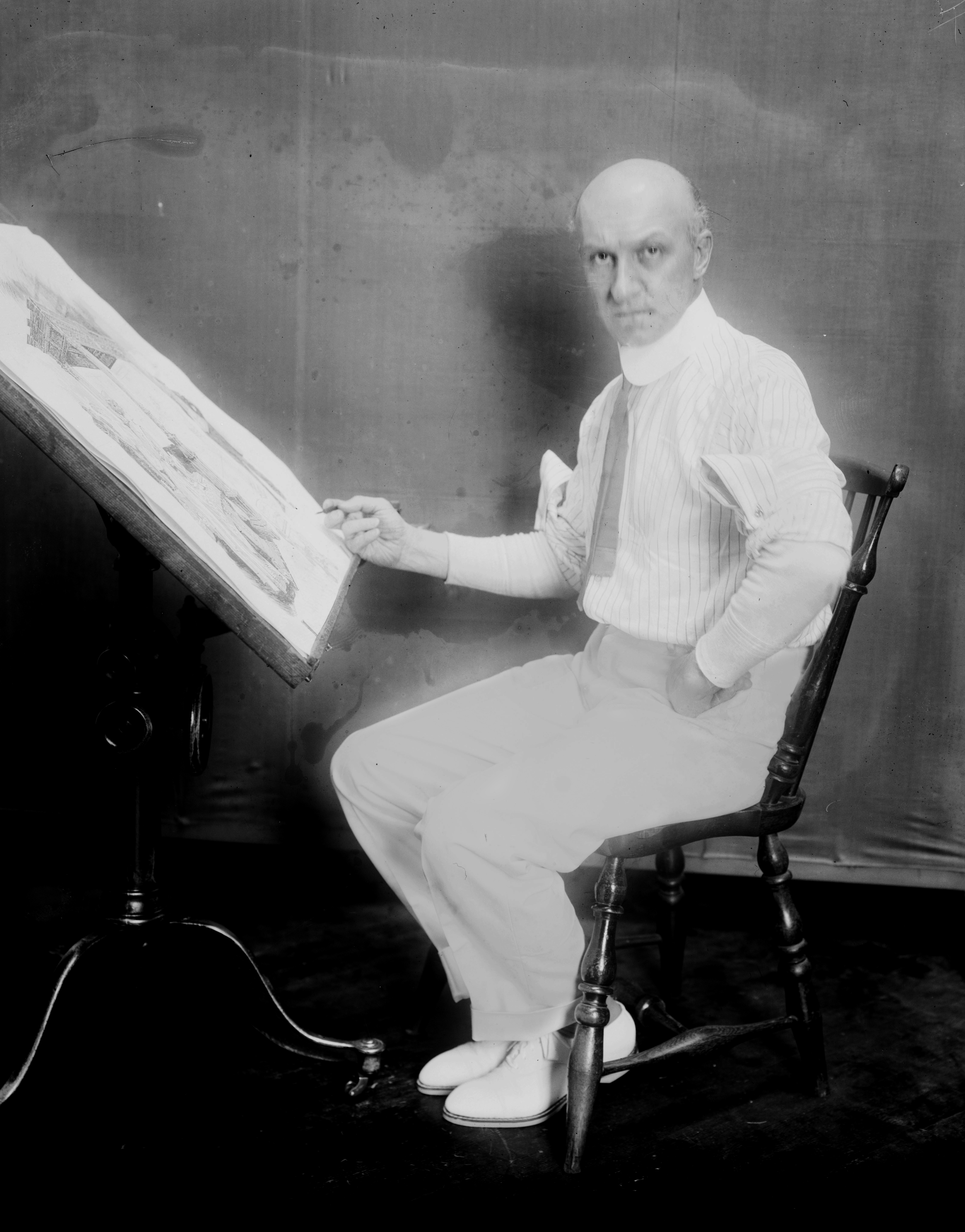 Artist Orson Lowell at his drawing board